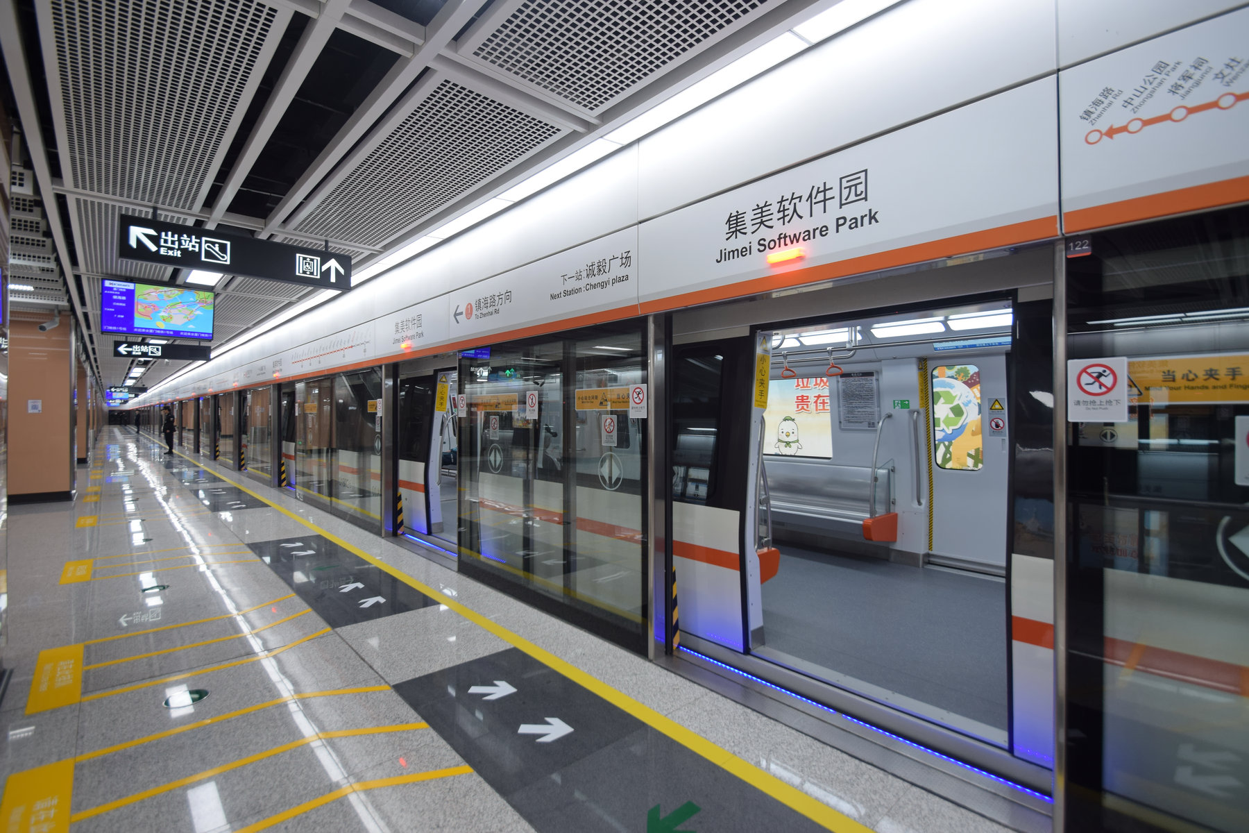 Line 1 Platform & Train of Jimei Software Park Station, Xiamen Metro